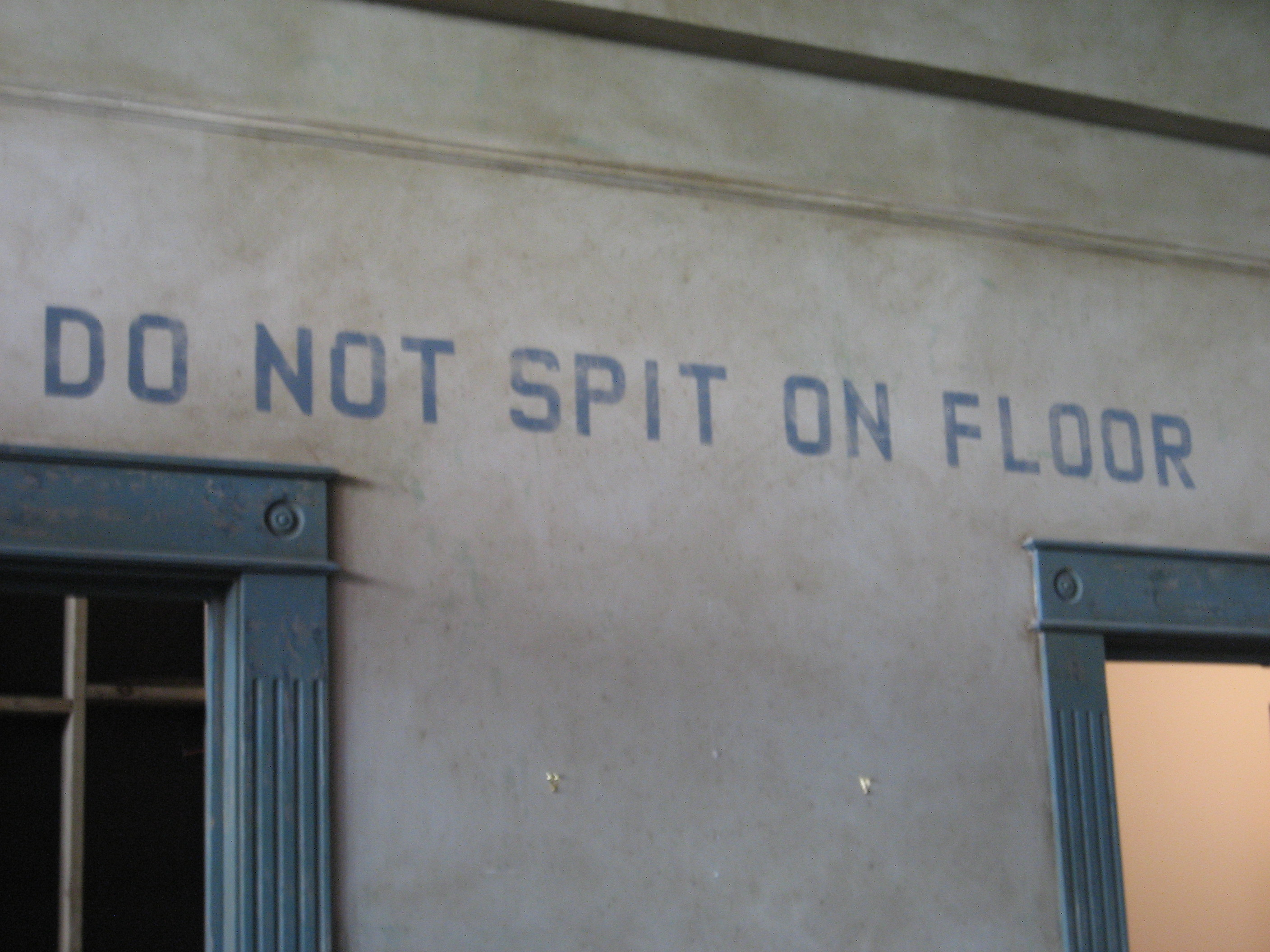 "Do Not Spit On Floor" inscription on interior wall of building undergoing rennovation in old Carrollton section of New Orleans